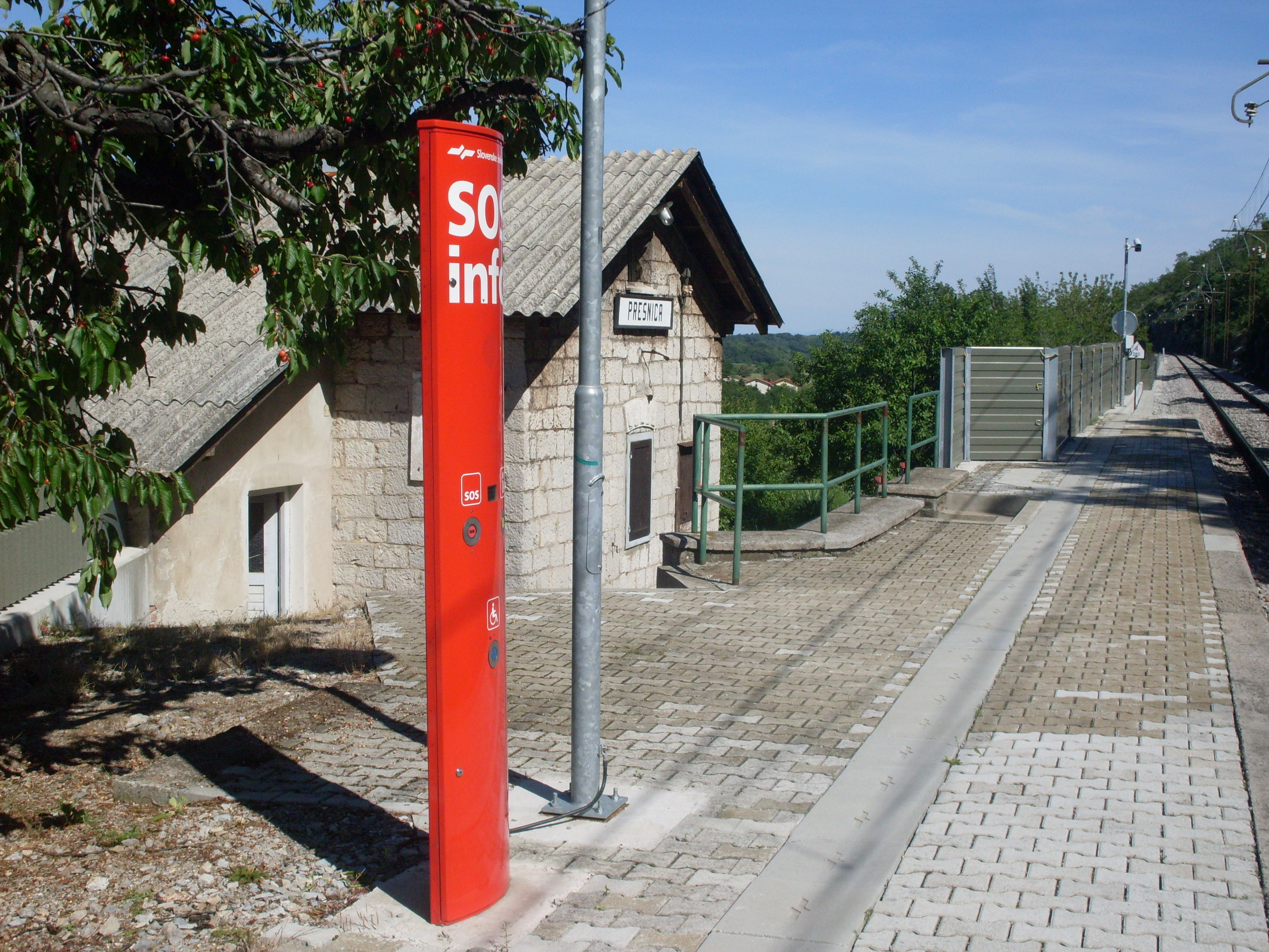 Rail halt in Prešnica, Slovenia